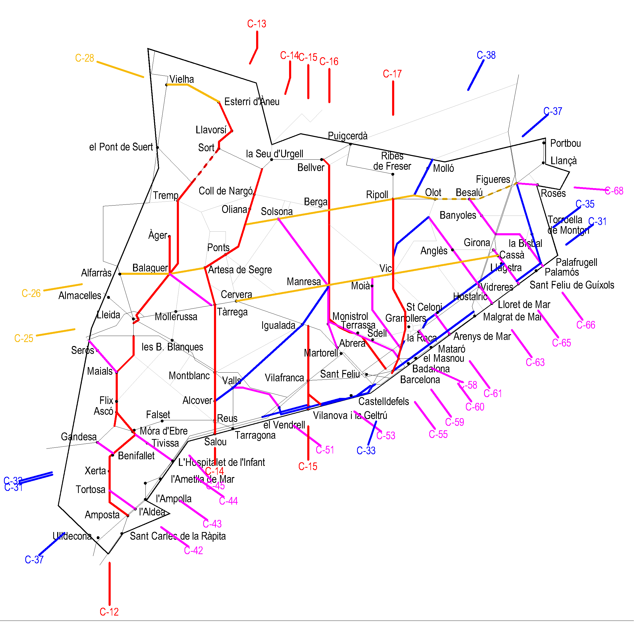 Road scheme of Catalonia